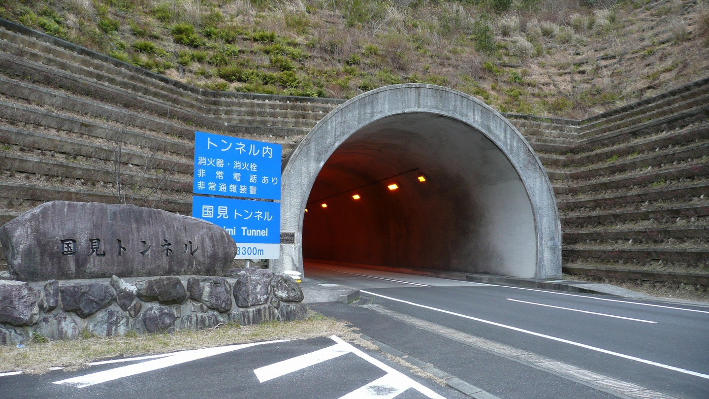 Kunimi Tunnel (Kagoshima Prefectural Road 561 - Kimotsuki Town, Kagoshima, Japan)